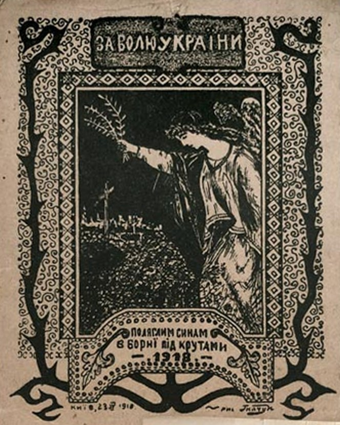 The Ukrainian propaganda leaflets, 1918